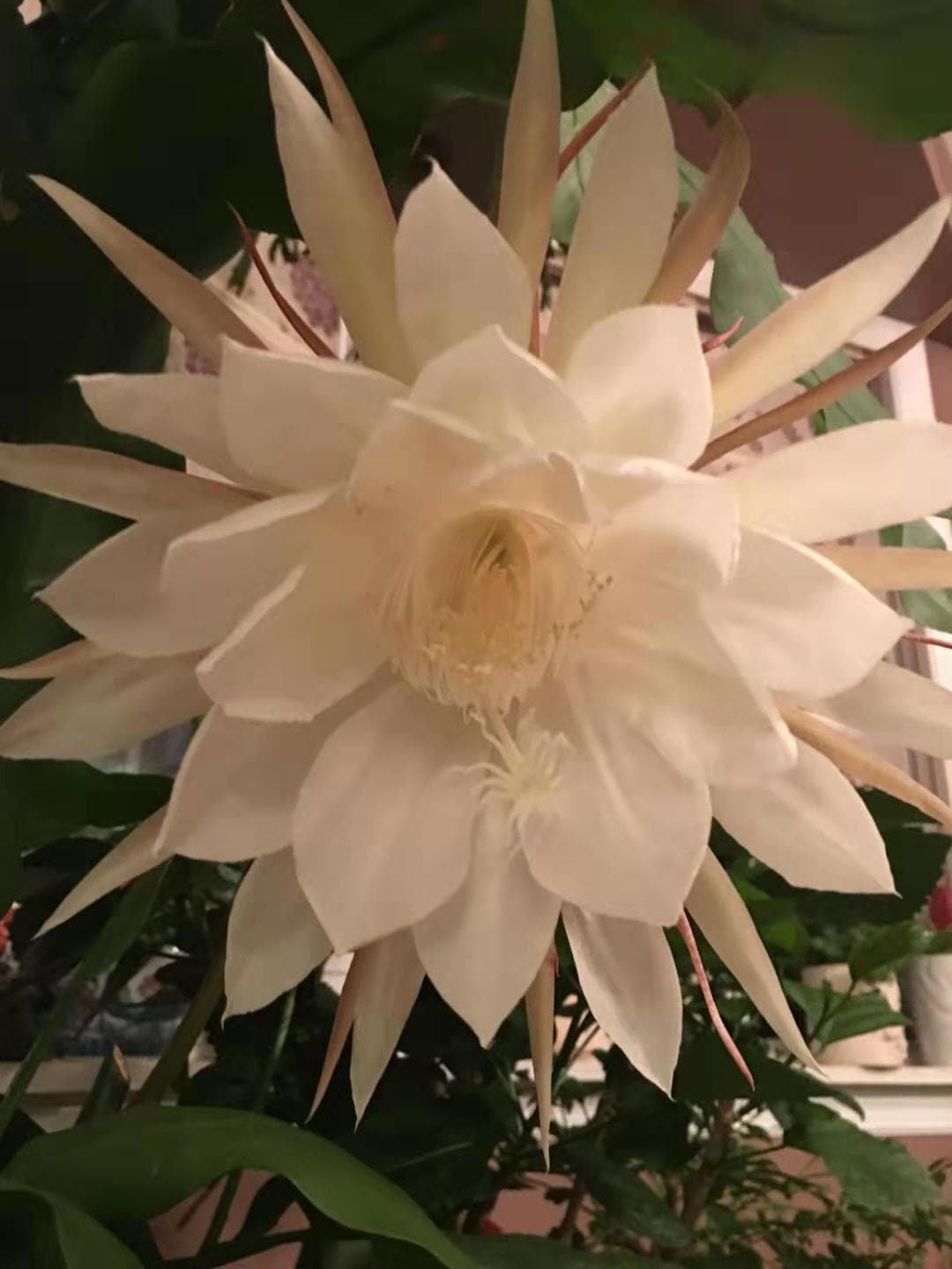 Epiphyllum oxypetalum Flowering from a frontal view.